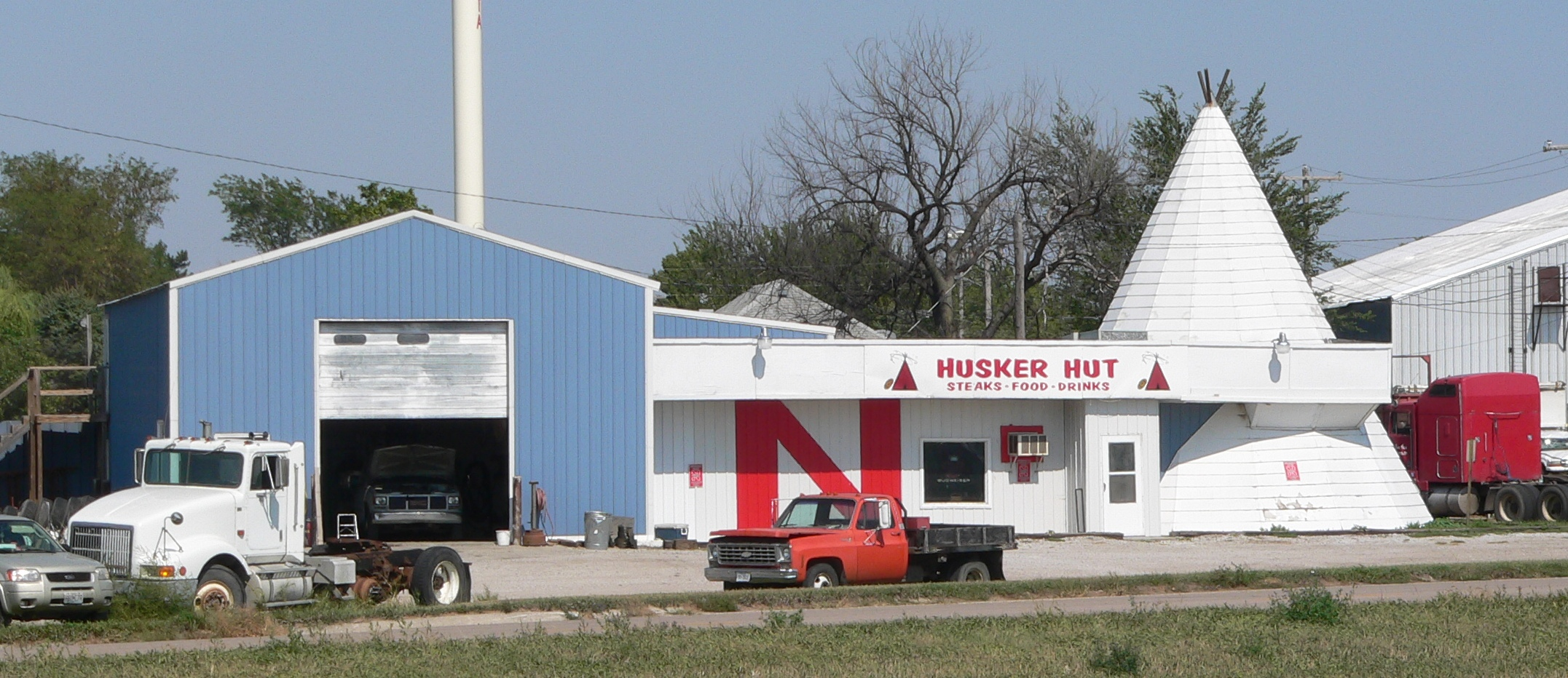 Husker Hut restaurant and bar, located on U.S. Highway 6/U.S. Highway 34 in Ashland, Nebraska.